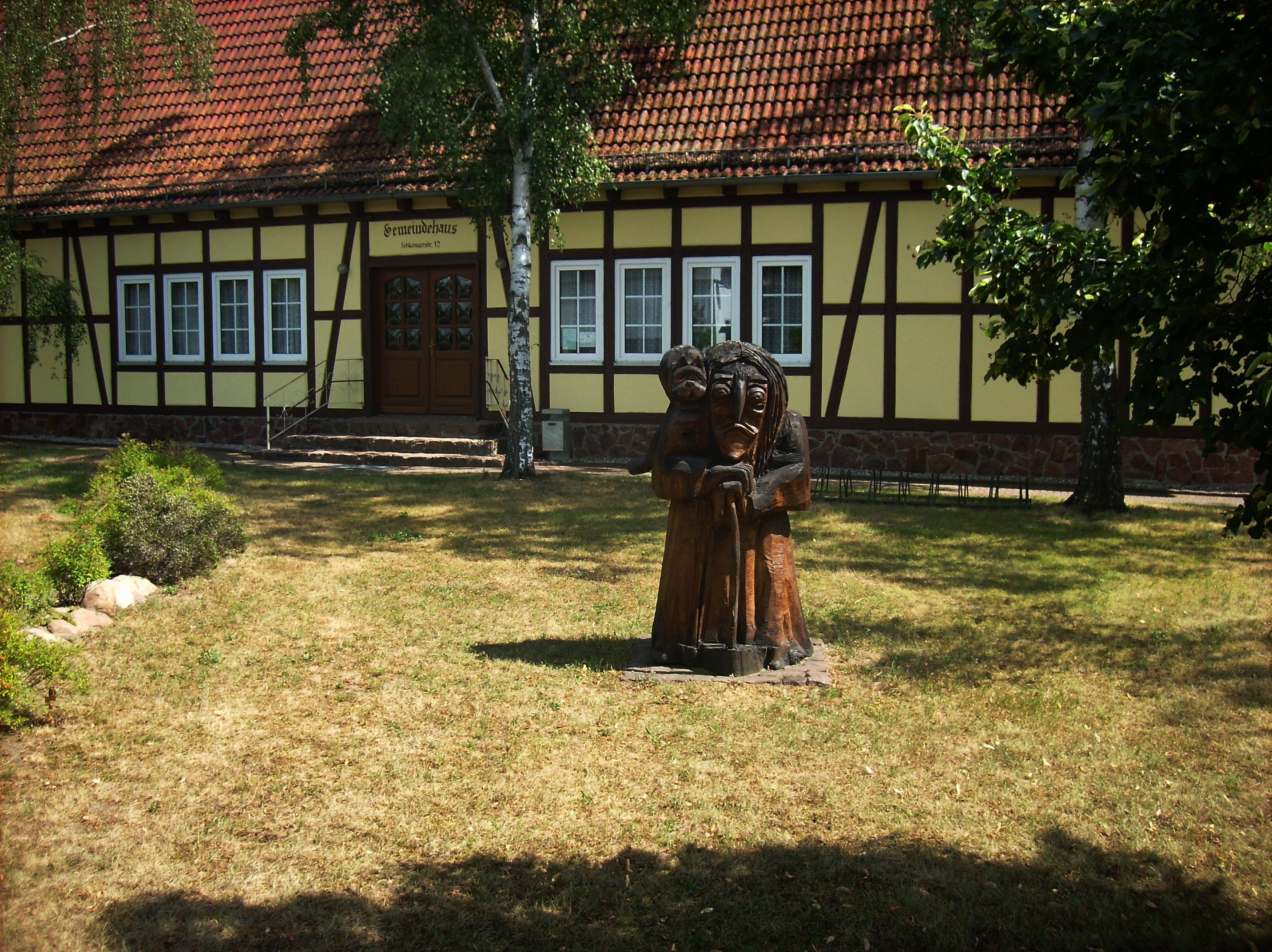 Municipal building and sculpture in Krina (Muldestausee, Anhalt-Bitterfeld district, Saxony-Anhalt)